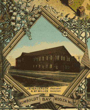 Detail of Humboldt Bay Woolen Mills from the "Illustrated map/perspective of Eureka, California, 1902." Above the banner which reads "Humboldt Bay Woolen Mills" are listed "J.W. Henderson President & N. Mc.Millan Secretary."